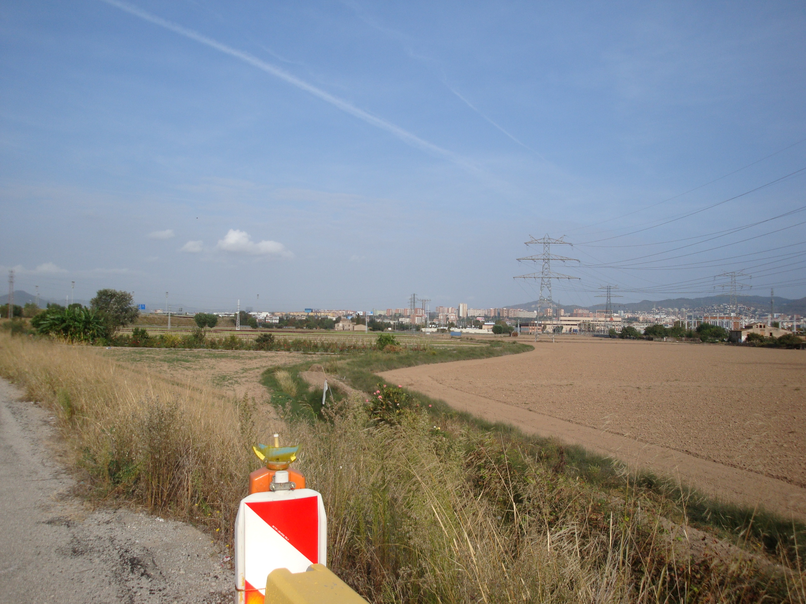 View of the Cal Trabal zone, from the south, over the Line 9 Metro works. On the right, Cal Masover Nou and Cal Trabal at the bottom.